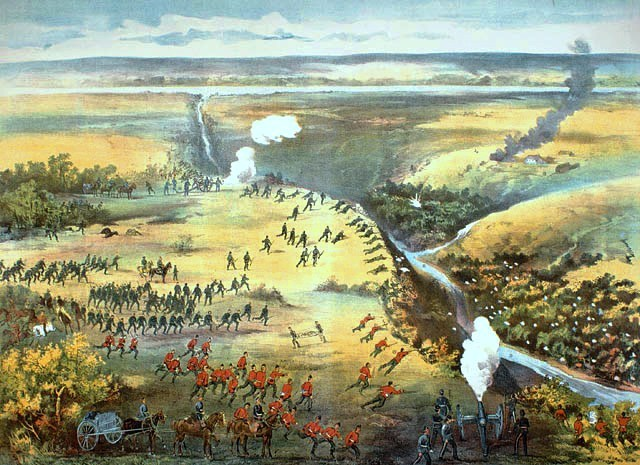 The Battle of Fish Creek (also known as the Battle of Tourond's Coulée), fought April 24, 1885 at Fish Creek, Saskatchewan was a major Métis victory over the Canadian forces attempting to quell Louis Riel's North-West Rebellion.Curzon was a lithographic artist who had been part of a militia regiment since at least 1881. He was employed as a lithographer by Toronto Lith. Co. in 1885 when he travelled to the West.